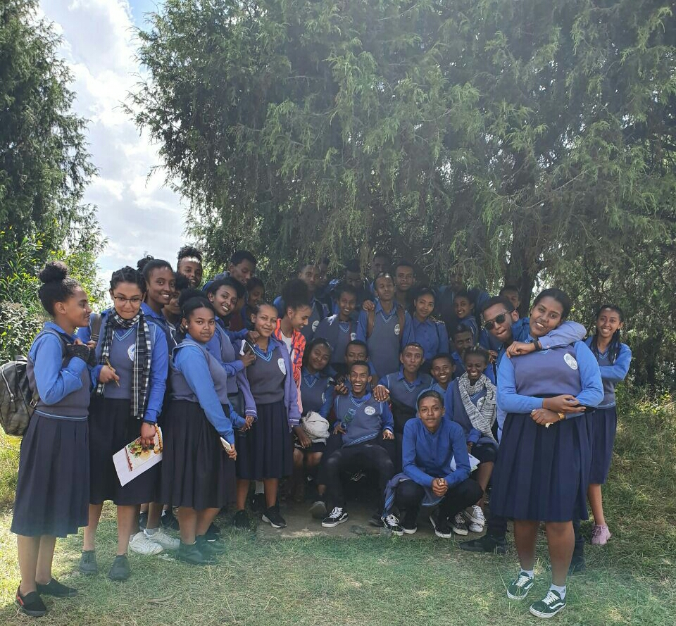 The image represent students in Magic Carpet School.